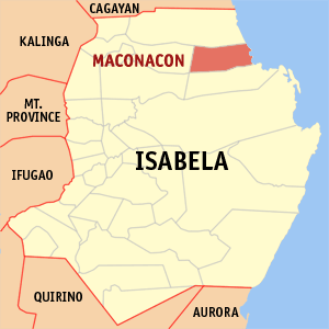 Map of Isabela showing the location of Maconacon